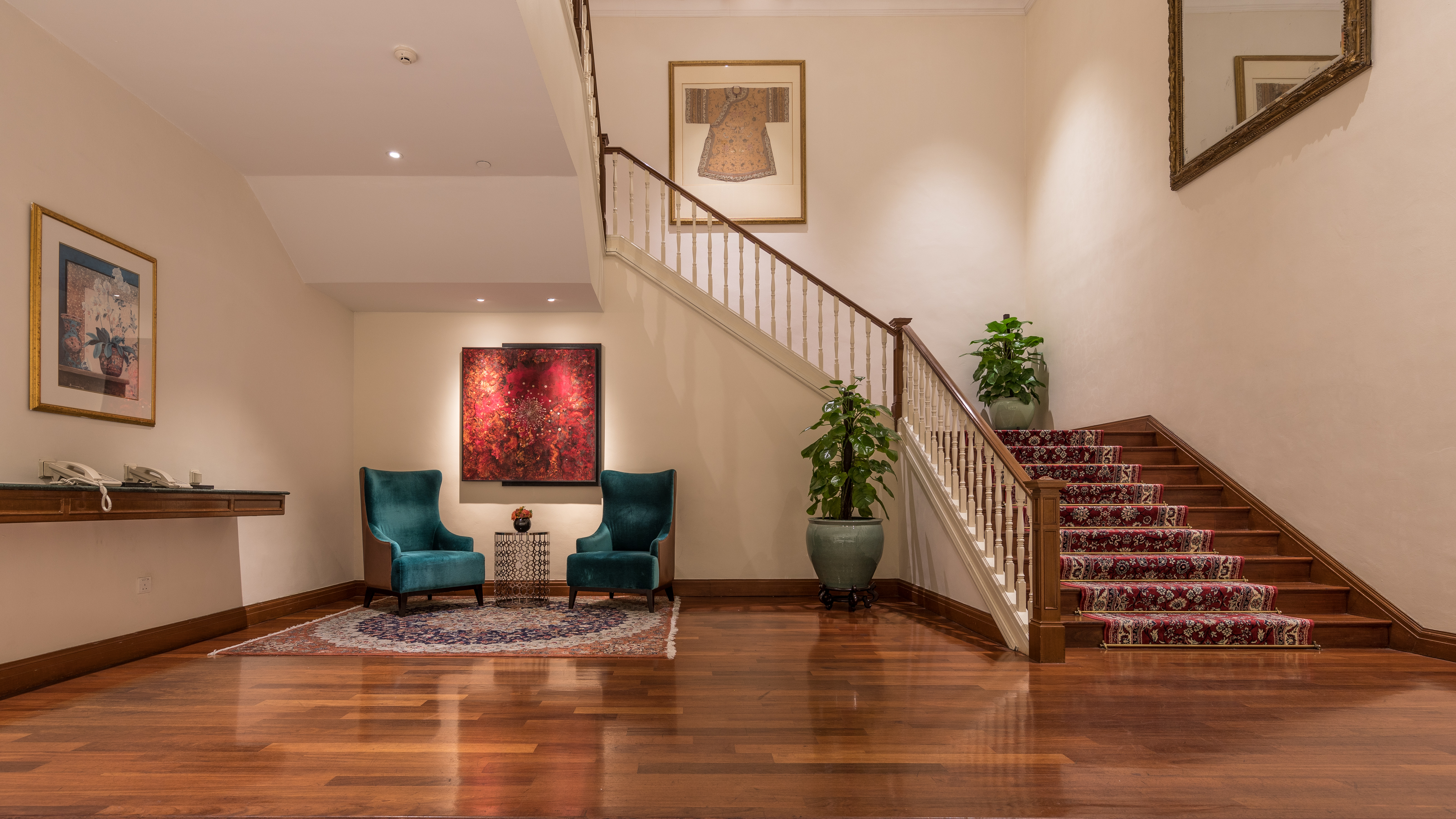 Stairs and lounge with two armchairs on a shining parquet in the hotel InterContinental, Singapore